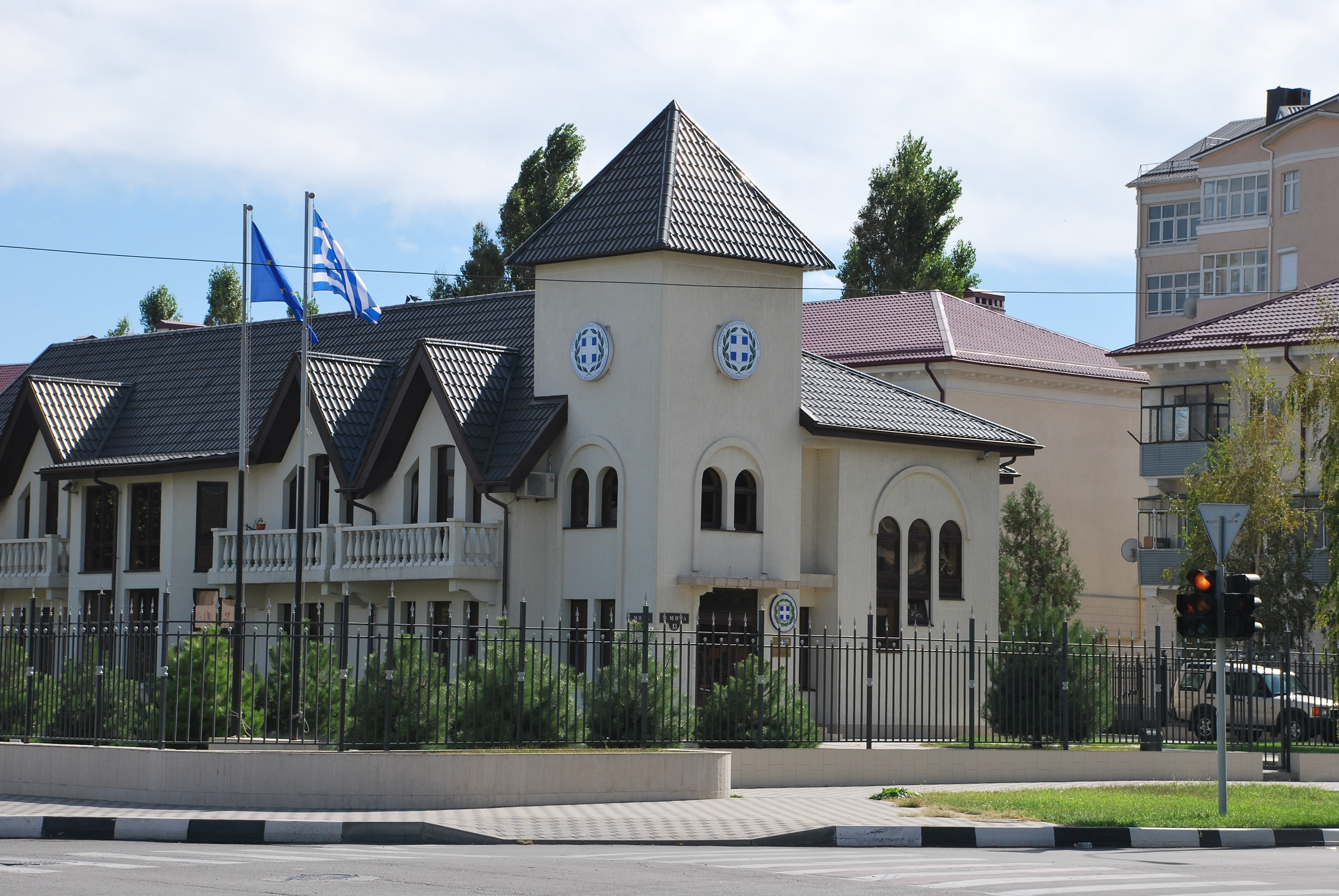 Consulate-General of Greece in Novorossiysk